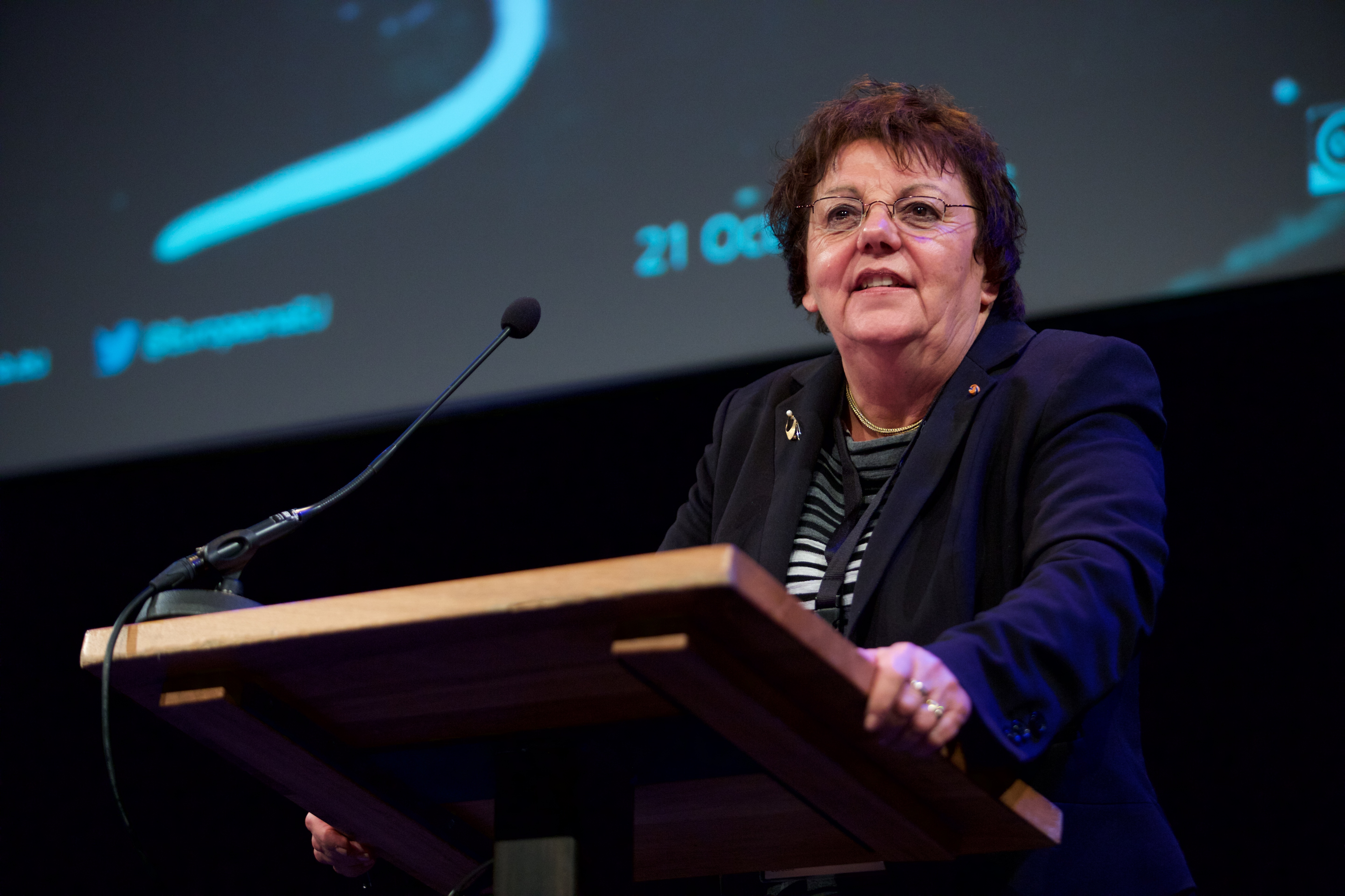 The Europeana Network Association Annual General Meeting (AGM) is an annual key event for Europeana and its network. It provides the opportunity for Europeana and its partners for all to share, discuss and develop specific areas of mutual interest. The 2015 edition of this event took place on 3 and 4 November 2015 in Amsterdam, the Netherlands. During the AGM delegates reflected on the work accomplished in 2015 and looked ahead to the challenges and opportunities for the coming years.